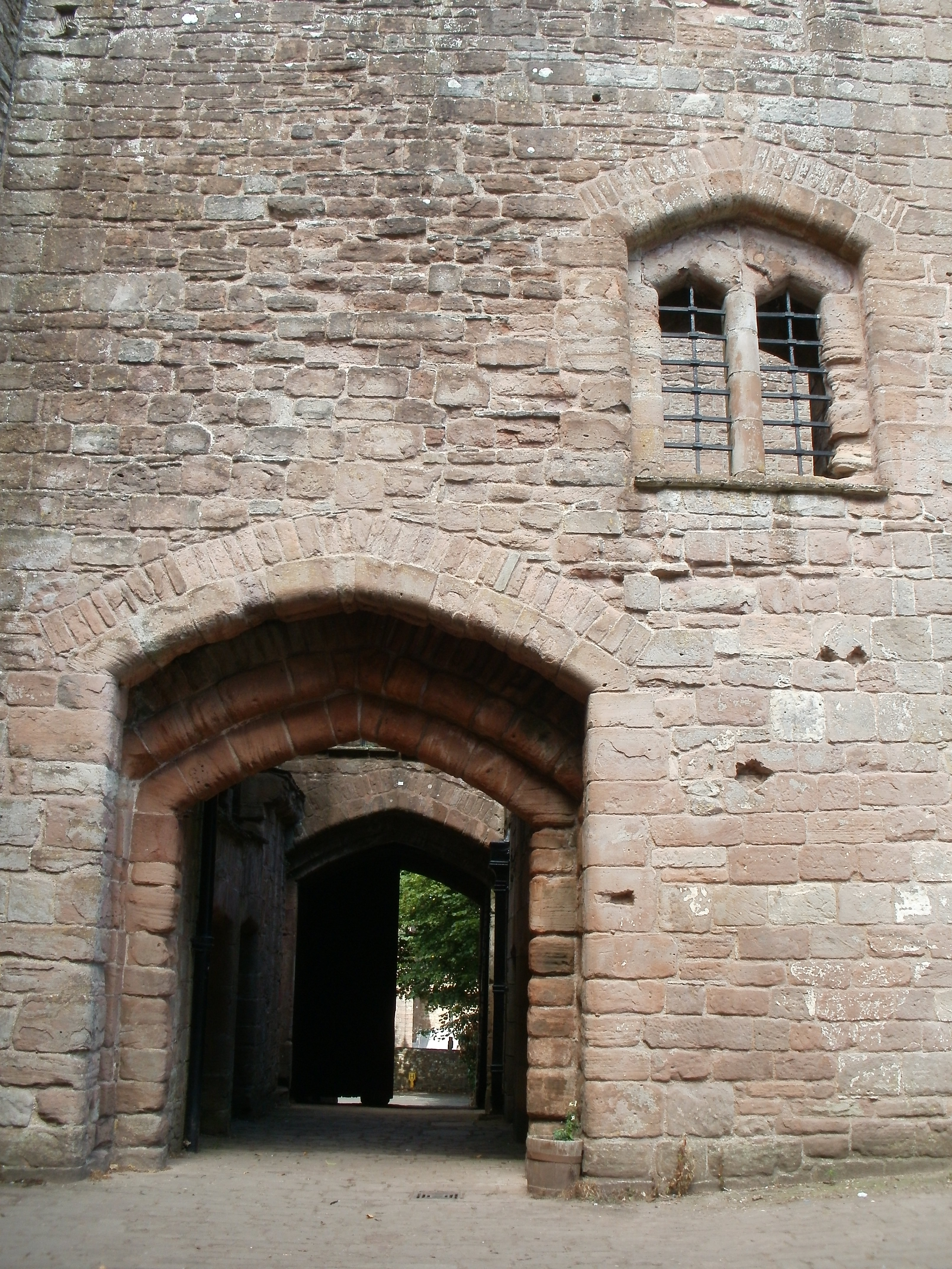 The gateway passage at St Briavels Castle, showing the emplacement of the triples portcullises.